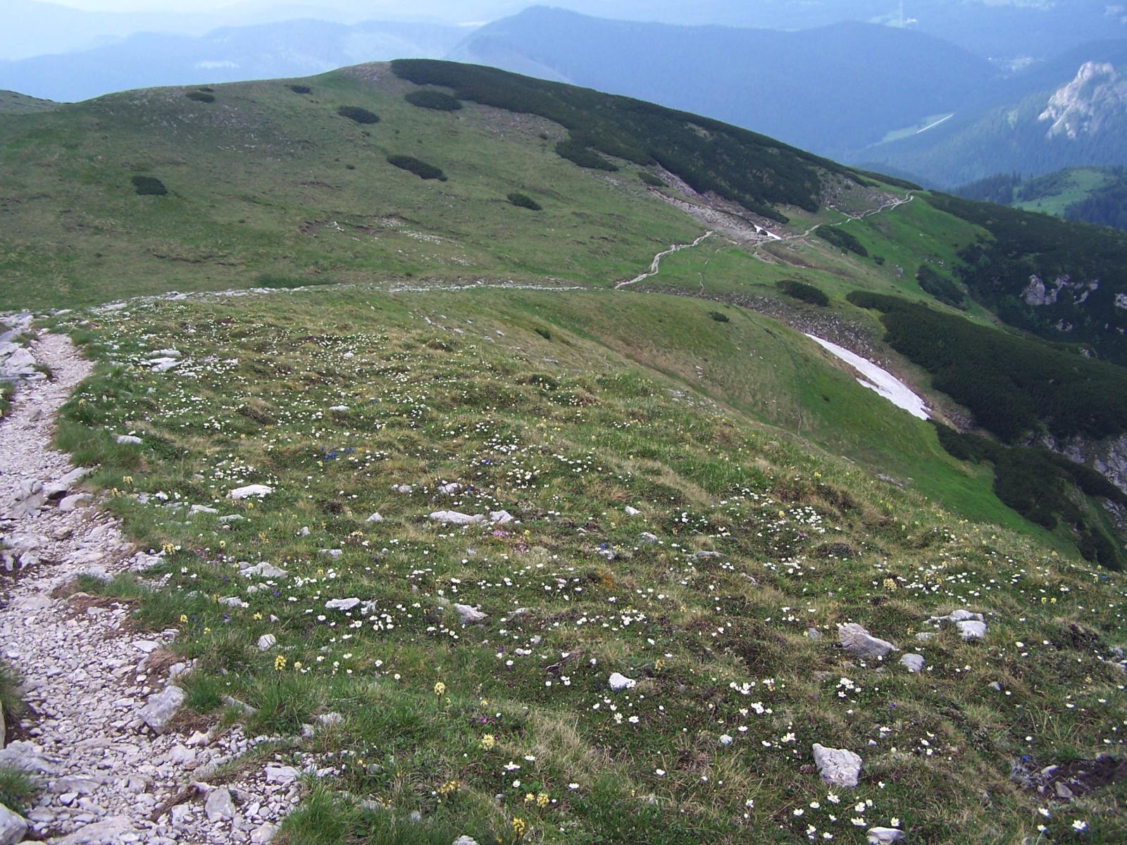 Hala Upłaz, West Tatra Mountains